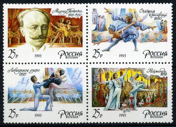 Stamps of Russia «Russian ballet (continuation of series). Towards the 175 anniversary of Marius Petipa (1818-1910) », 1993